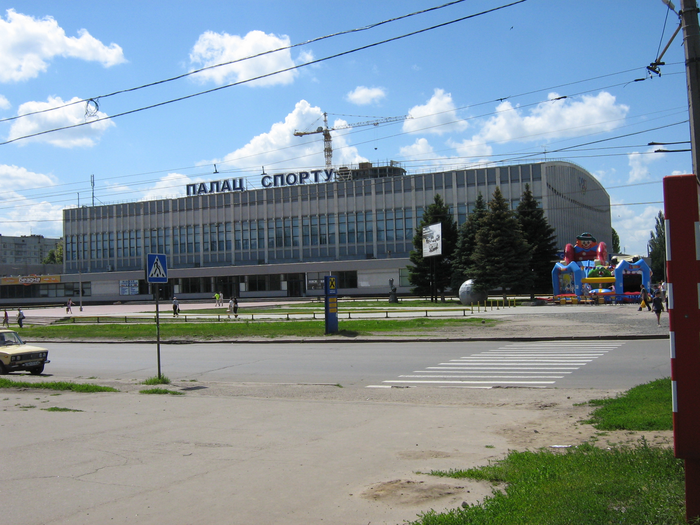 Sport Palace on Marshala Zhukova avenue in Kharkov